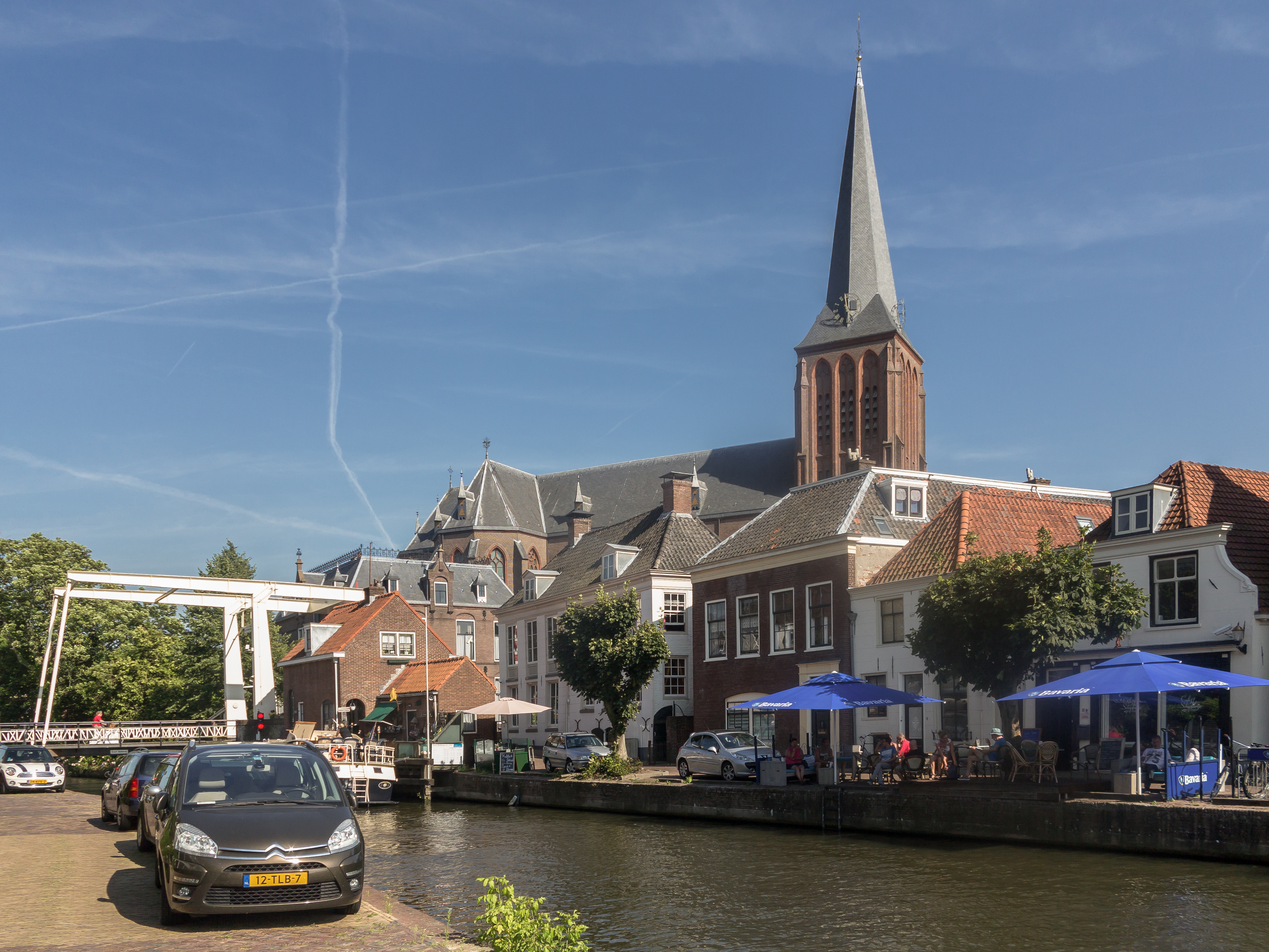 Maarssen, church: de Heilige Hartkerk